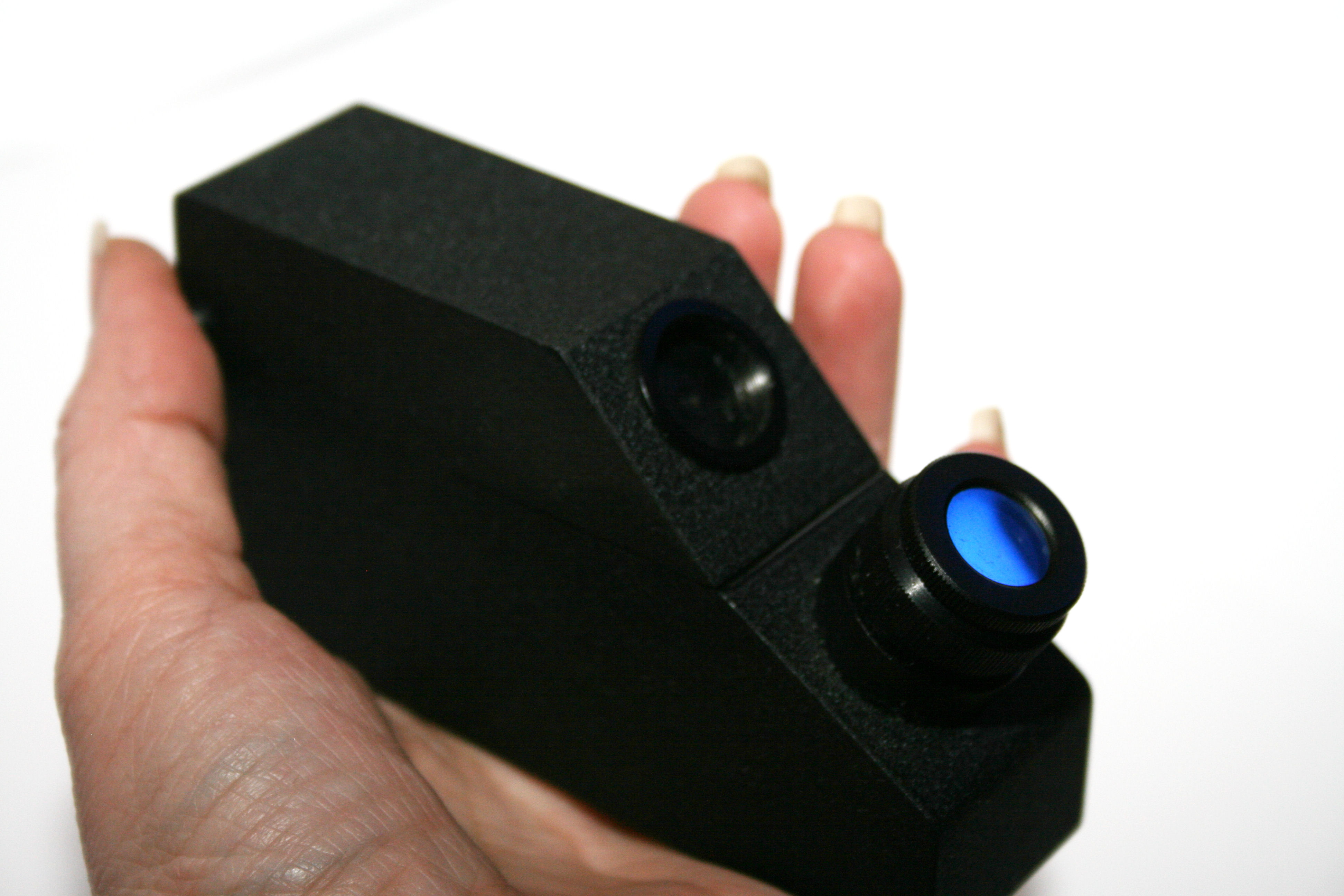 hand size portable refractometer.